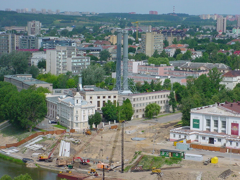 Vilnius power plant in 2002